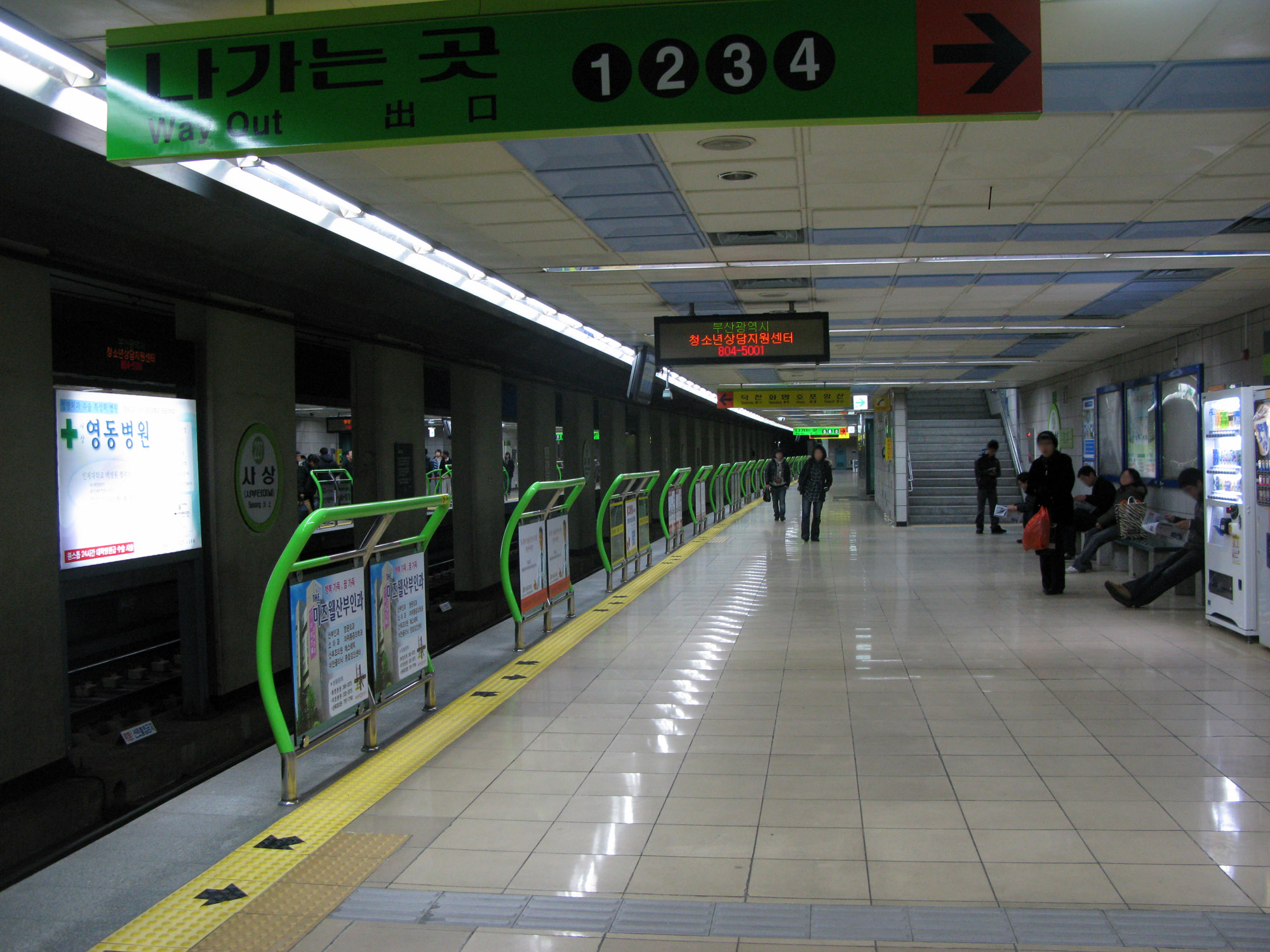 Busan Subway Line 2 Sasang Station